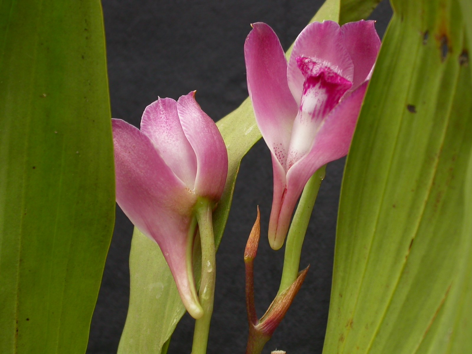 Bifrenaria tyrianthina